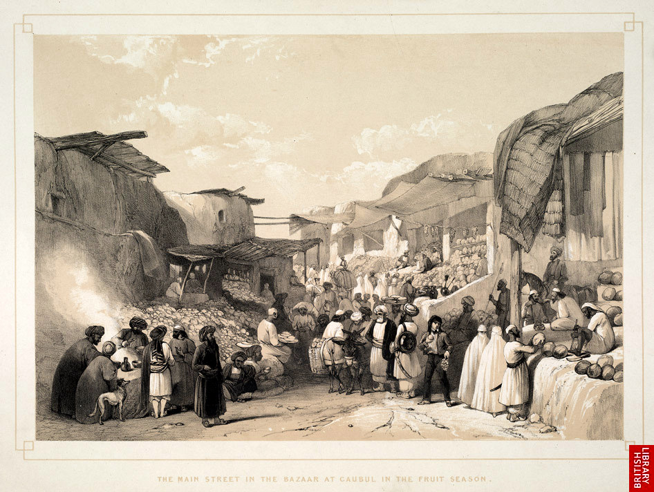 The main street in the bazaar at Caubul in the fruit season, a watercolor by James Atkinson, 1842